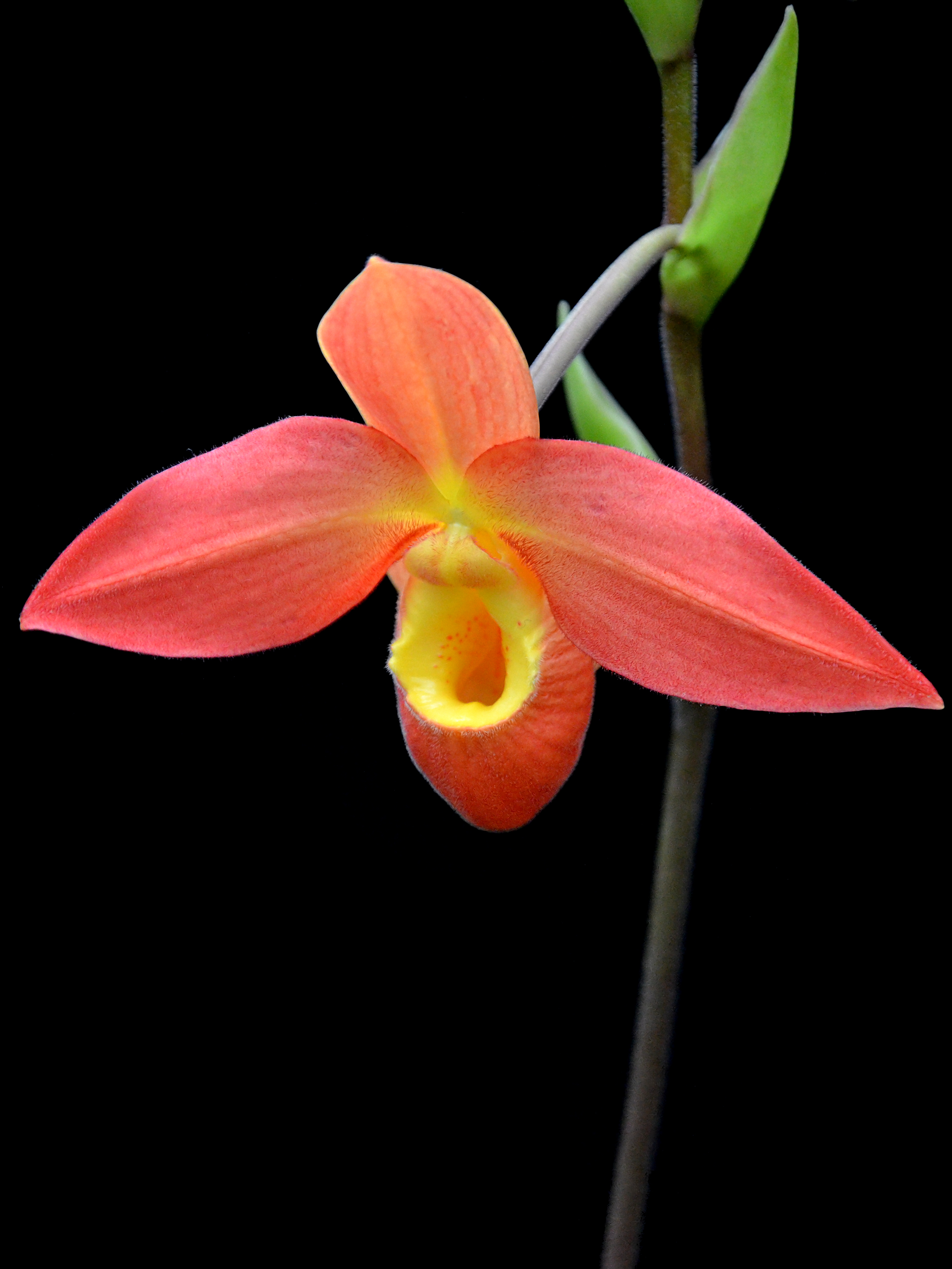 Scarlet Andean Slipper at Kew Gardens, London, UK.